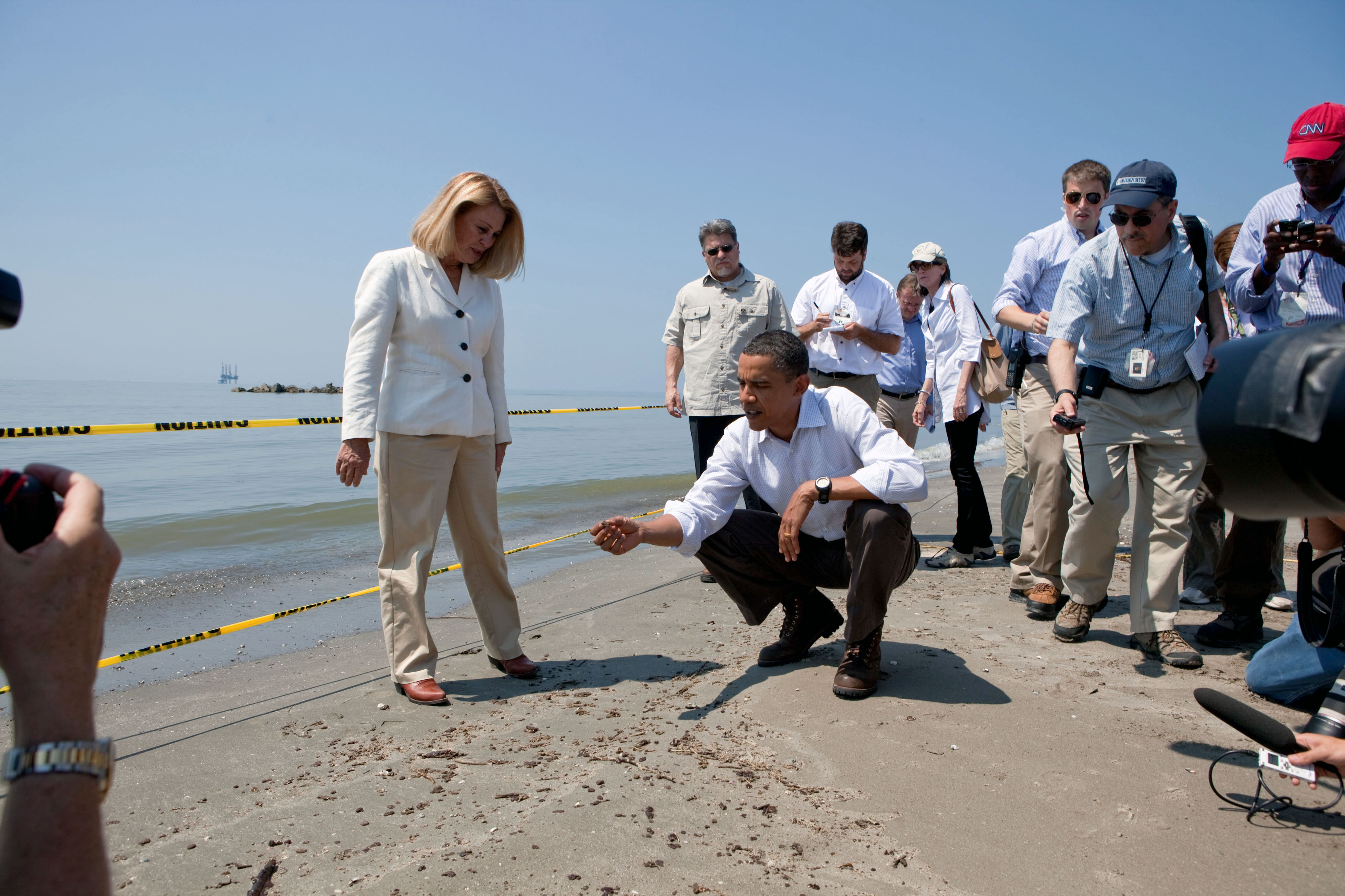 President Barack Obama and Lafourche Parish President Charlotte Randolf, left, inspect a tar ball as they look at the effect the BP oil spill is having on Fourchon Beach in Port Fourchon, La., May 28, 2010